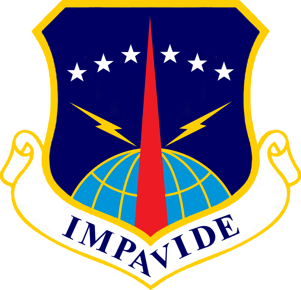 Emblem of the 90th Missile Wing, a wing of the United States Air Force. Approved on 15 Sep 1993.